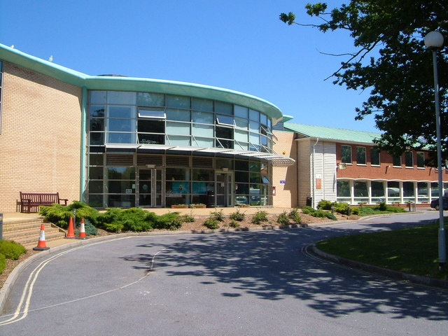 Owen Building, Exmouth Campus, University of Plymouth. The campus is destined to close in 2008, with the Faculty of Education relocating to Plymouth.